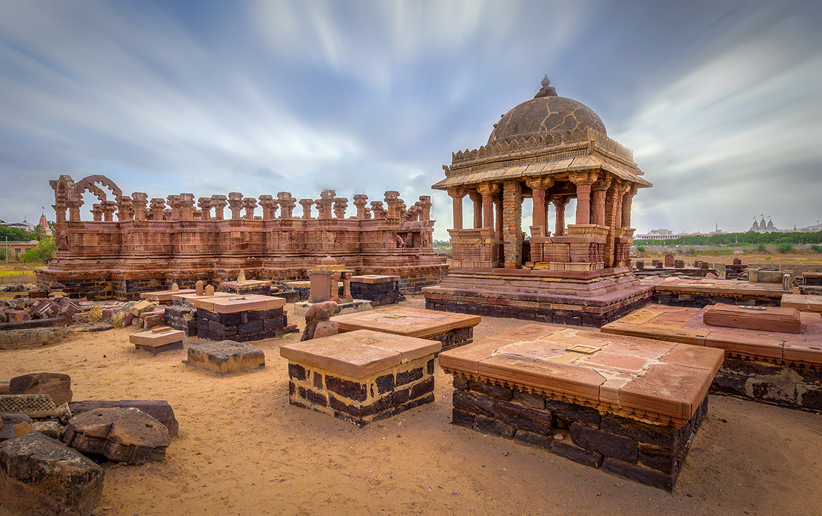 Bhuj Chhatedi, a historic cemetery of Bhuj Ruler. Most of it's historic structures has been ruined by 2001 earth quake. A renovation is under construction though.